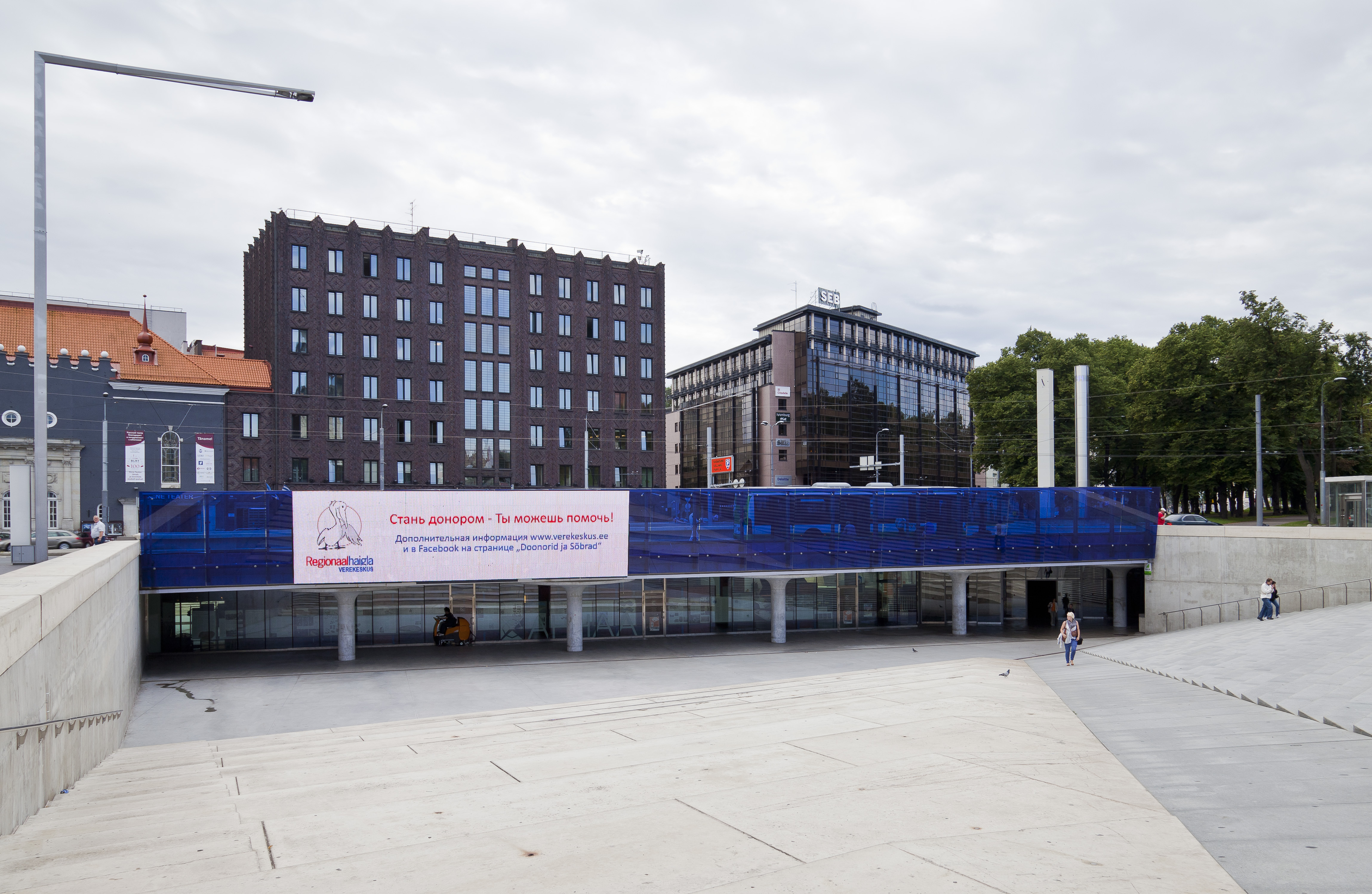 Freedom square, Tallinn, Estonia